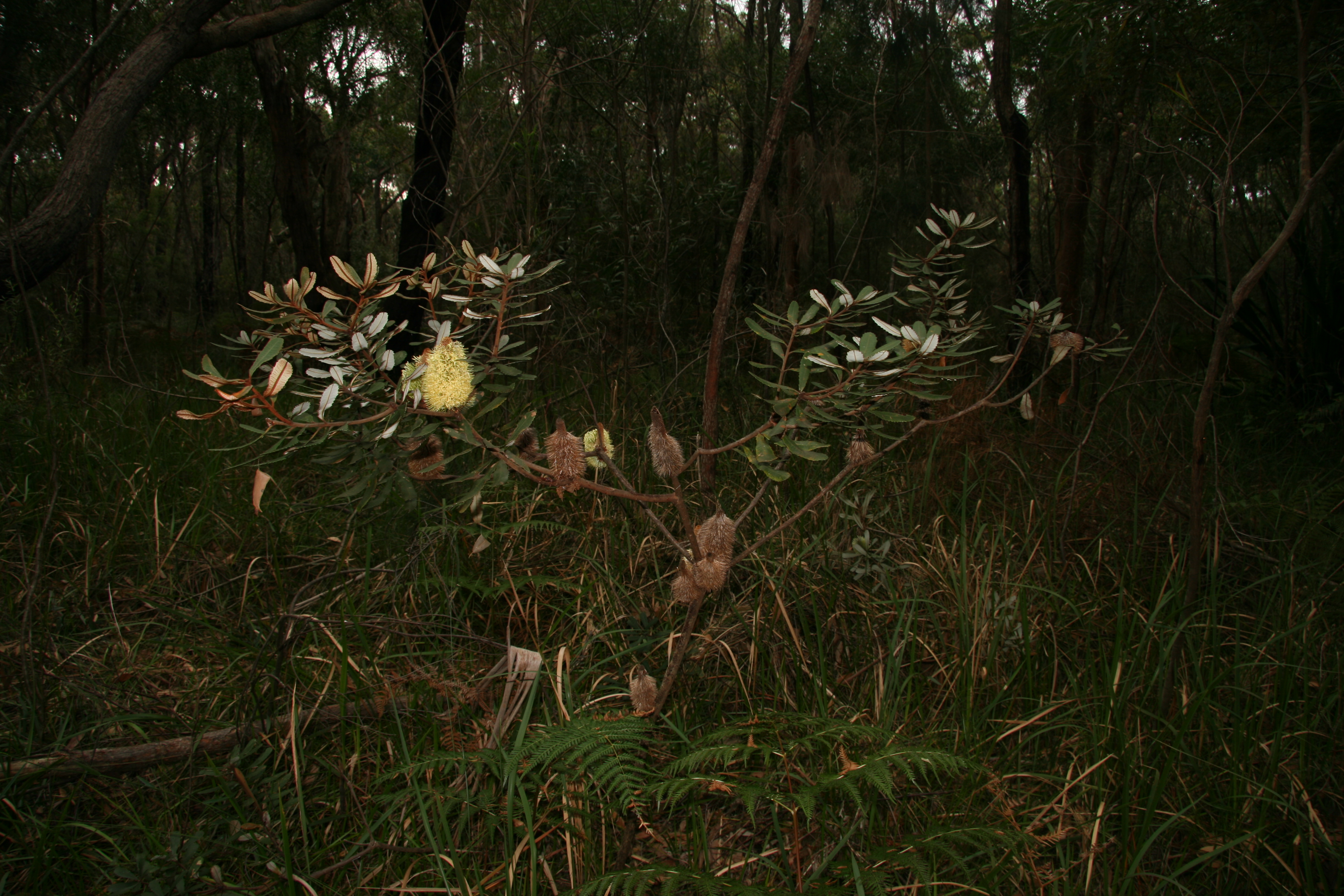 Banksia oblongfolia (habit), Bottle Forest (East Heathcote), Royal National Park